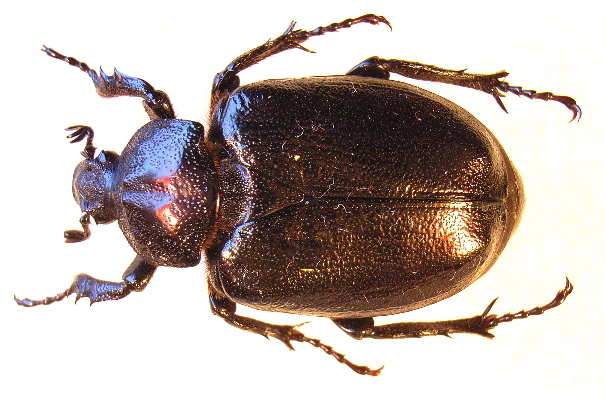 female Osmoderma eremita